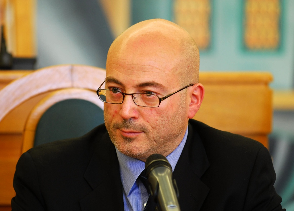 Aldo Cazzullo during a conference on Beniamino Andreatta in Trento.